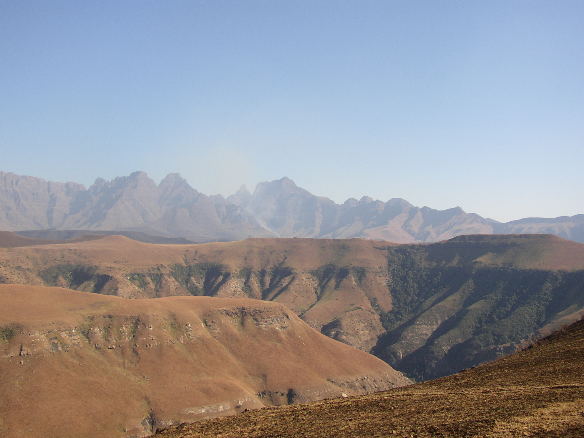 Maloti-Drakensberg Park (Lesotho, South Africa)